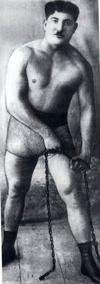 Azerbaijani wrestler, Rashid Yusifov in zorkhana. Baku.